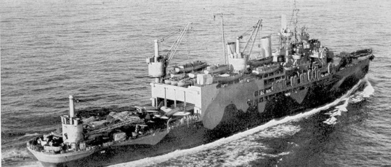 The U.S. Navy seaplane tender USS Albemarle (AV-5) underway at sea on 10 June 1943. She is painted in Camouflage Measure 12 (Modified). Note the Vought OS2U Kingfishers aft.